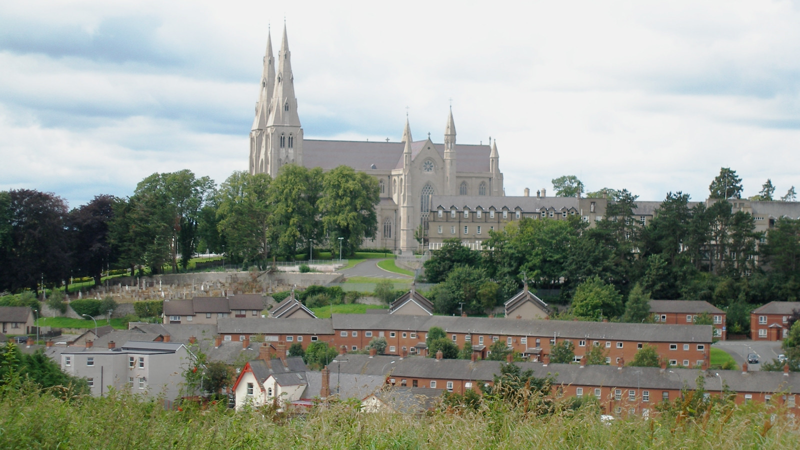 Armagh Roman Catholic cathedral (Northern Ireland) / Cathédrale catholique St Patrick à Armagh (Irlande du Nord)